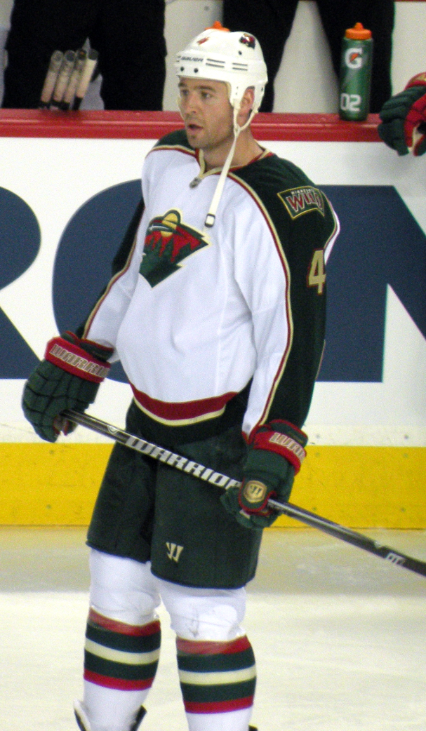 Minnesota Wild defenceman Clayton Stoner prior to a National Hockey League game against the Calgary Flames.